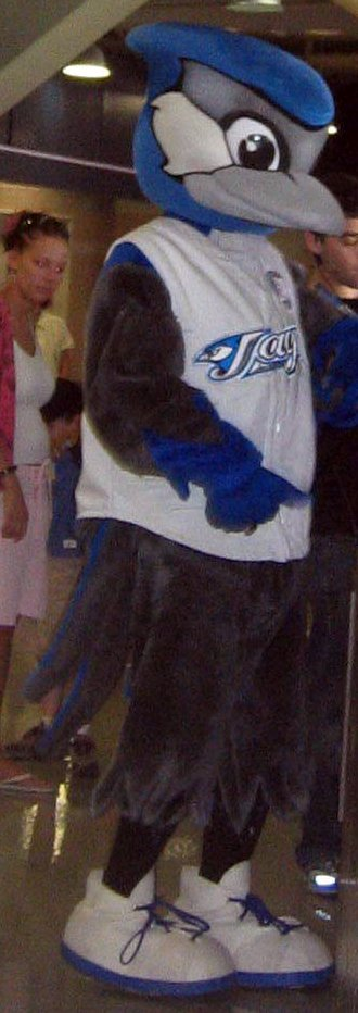 Ace is the official mascot of the Toronto Blue Jays. Source: [1] Cropped from original photo. Photo by: Sean Biehle Taken on July 2, 2006.